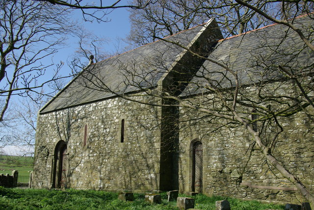 Cruggleton Church Dating from the 12th-century, the church was restored from a ruinous condition by the Marquess of Bute around 1890.